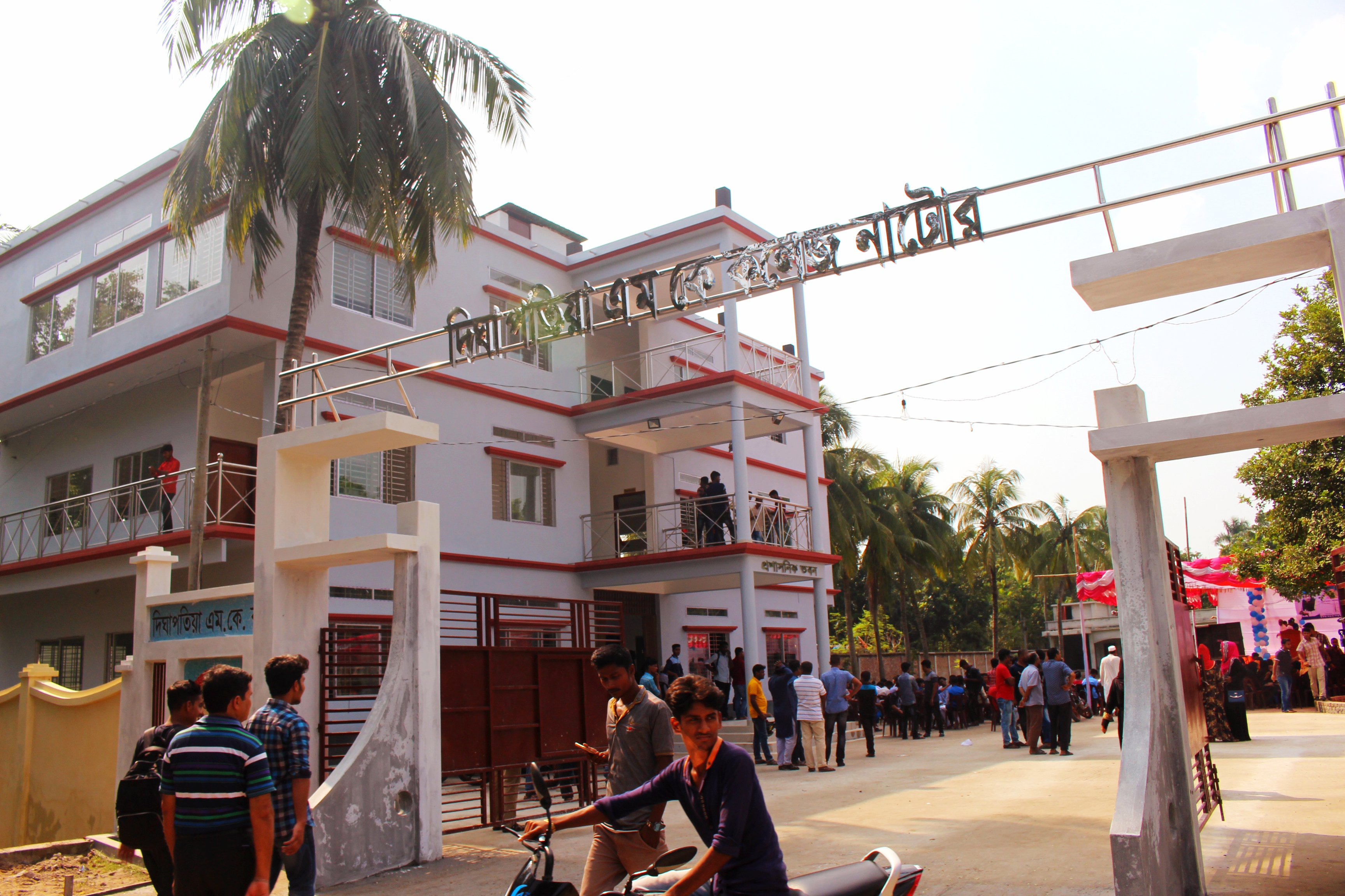 Dighapotia College(main)